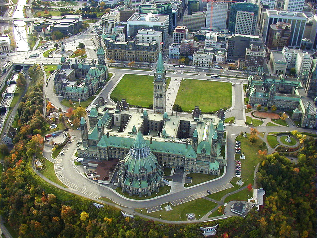 I took this twelve years ago with my first digital camera, a CAD$700 1.3MP Olympus point and shoot-- practically a Kodak Brownie by today's standards. The image was rescued from a "shoebox" of CDR. This was taken before the Parliament buildings underwent considerable restoration of the exterior: repairs to the fragile and weathered sandstone and replacement of the heavily oxidized copper rooftops. It was also before September-11-- before all the security barricades and RCMP cars that we have today. You an see the Rideau Canal locks to the left (partially cropped), the National Arts Centre (NAC) at the top left.